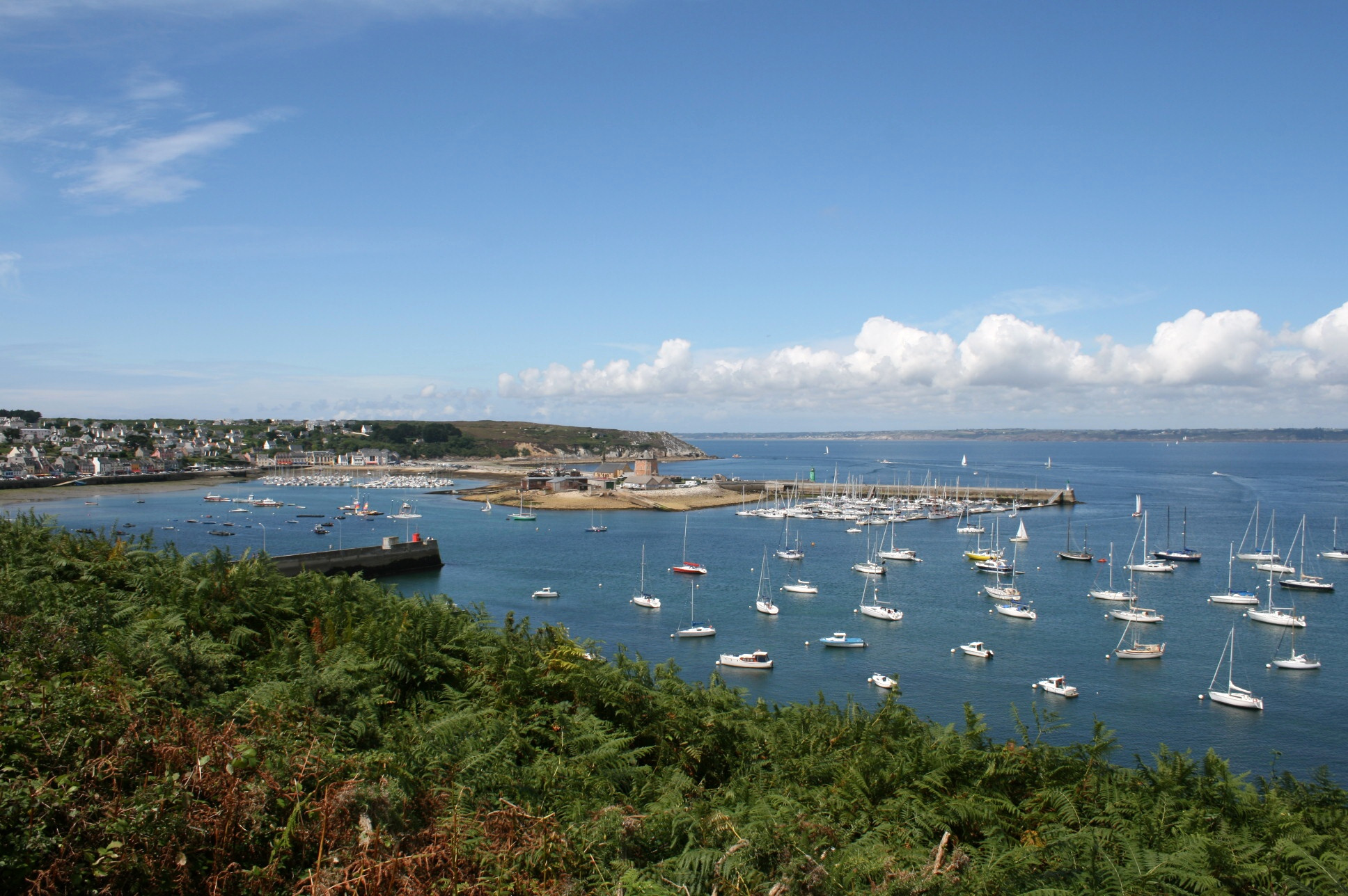 Harbor of Camaret-sur-Mer